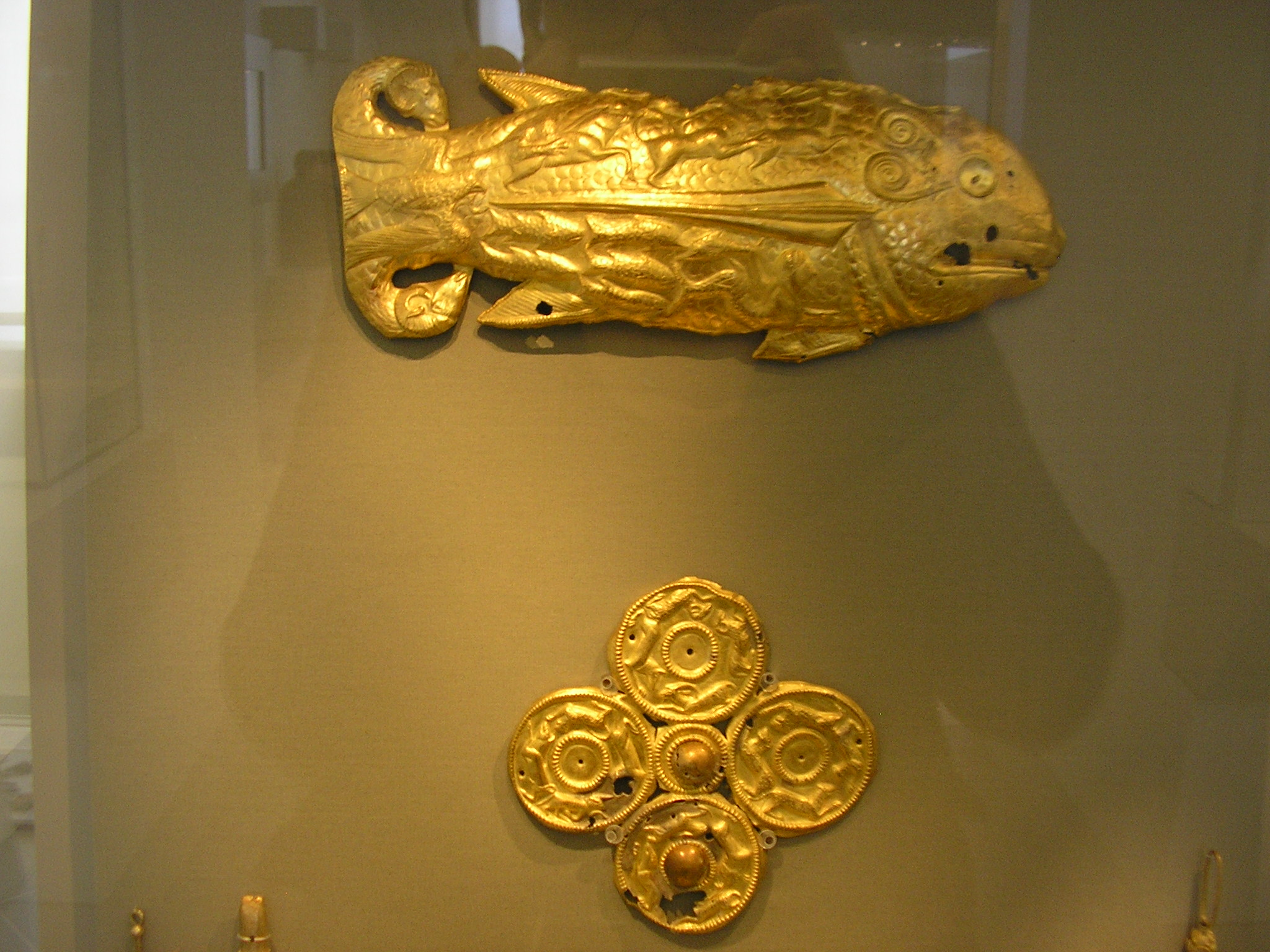 Scythian gold